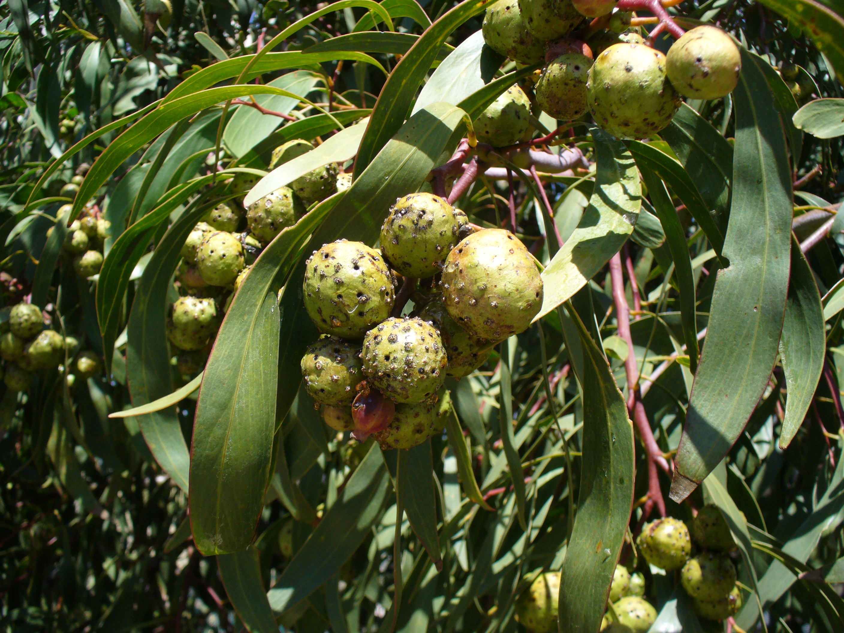 Galls on Acacia pycnantha used as a biological control (compare with similar image here)